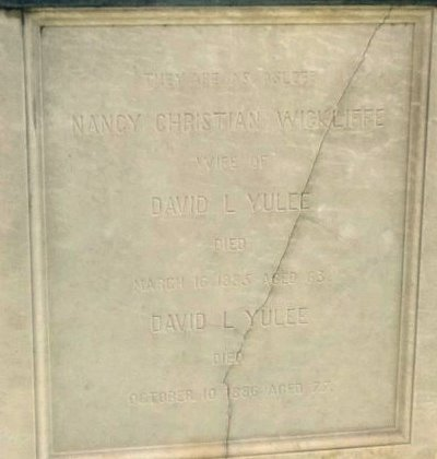 David Yulee Funerary Inscription with wife Nancy Christian Wickliffe